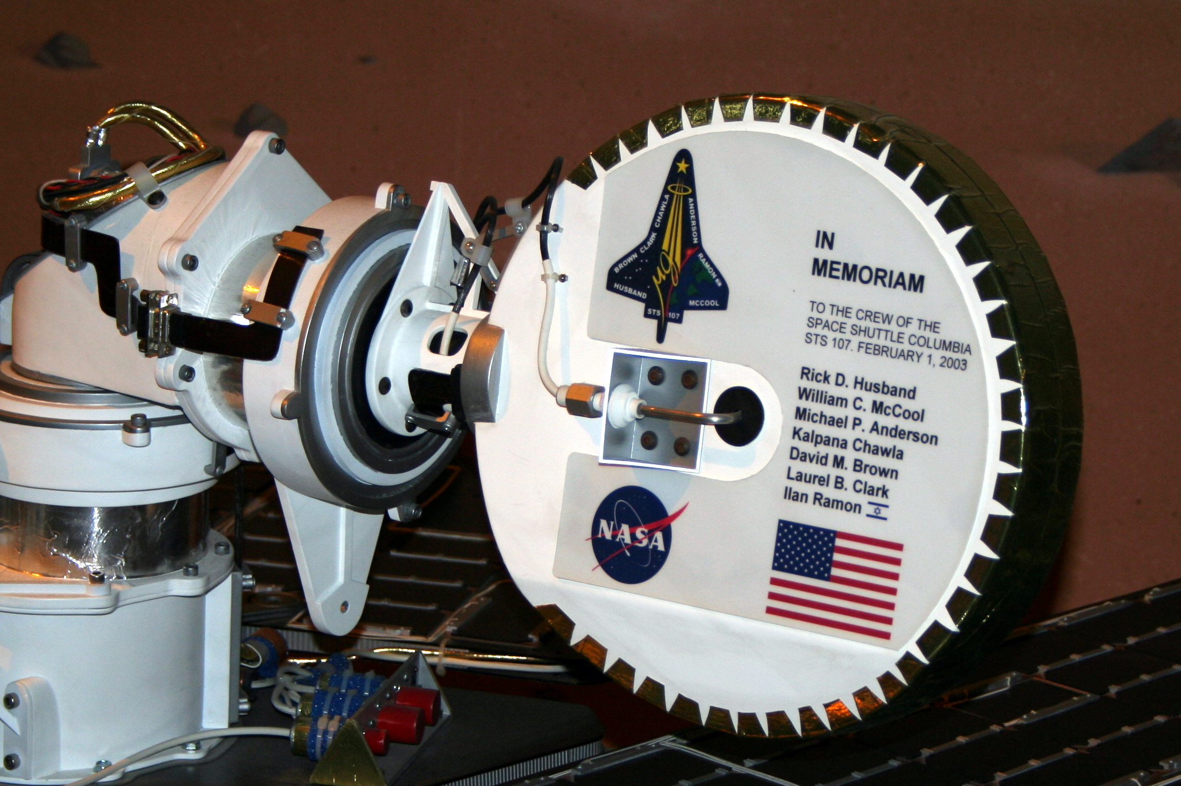 A memorial plaque mounted on the back of the high gain antenna on the Mars rover Spirit. The landing site of the rover was named Columbia Memorial Station in honor of the astronauts on the final mission of the Space Shuttle Columbia. Image from full-scale model of Spirit on display at the Virginia Air and Space Center